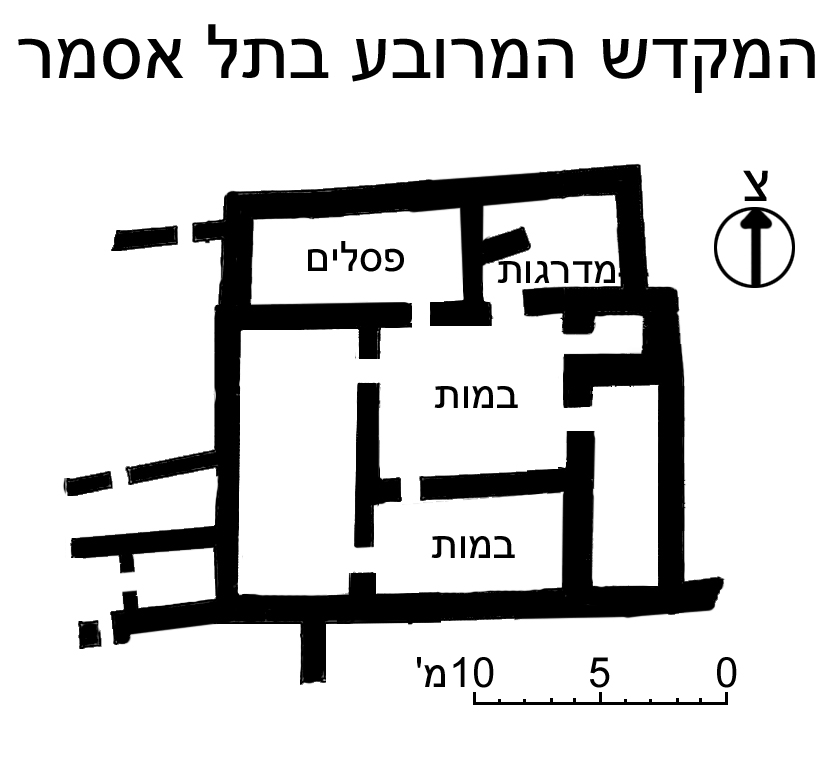 Eshnunna-Tell Asmar: the Square Temple